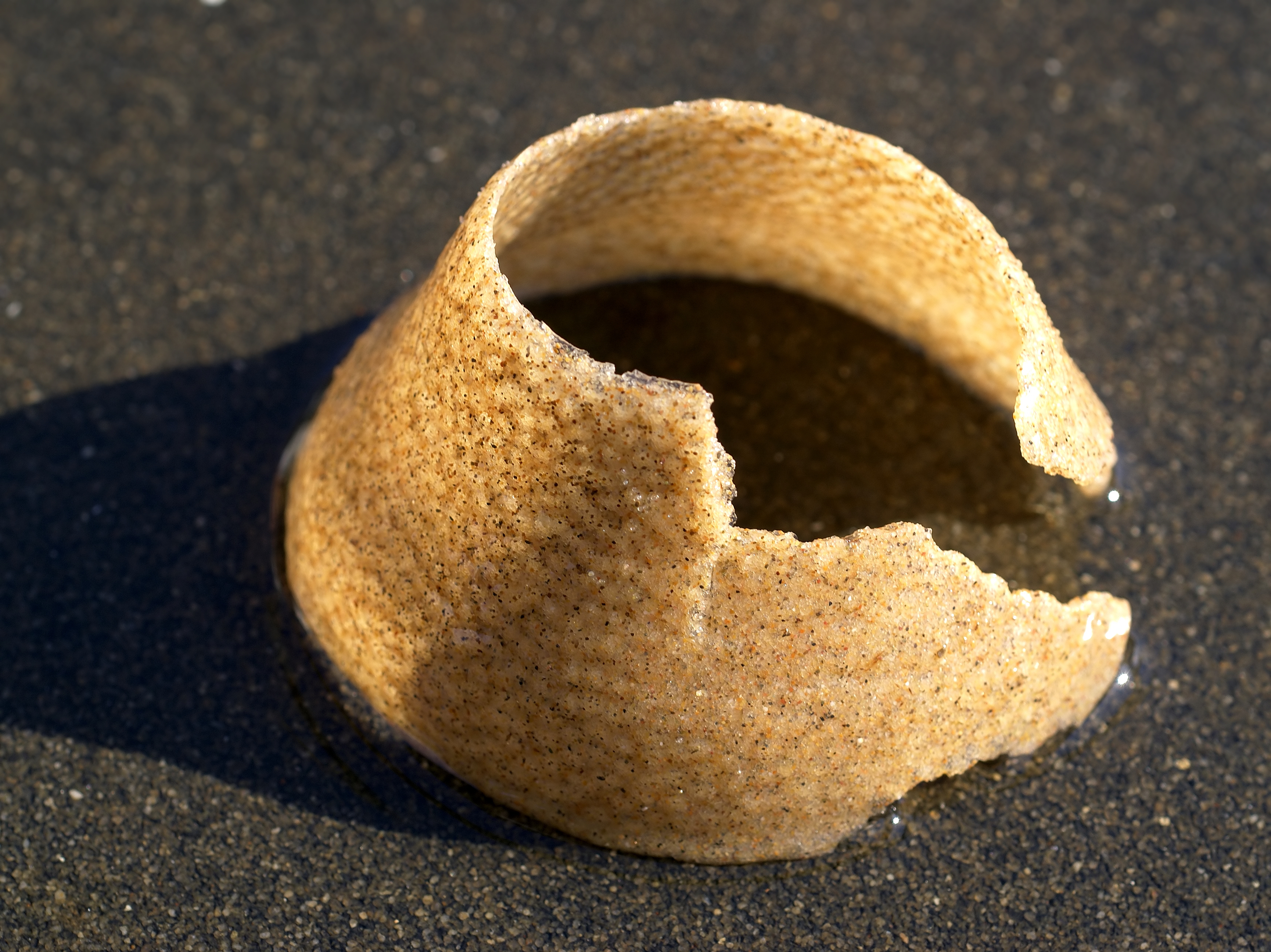 Open collar eggs capsule of Necklace shell, from the north of the Belgian continental shelf.Studio image.